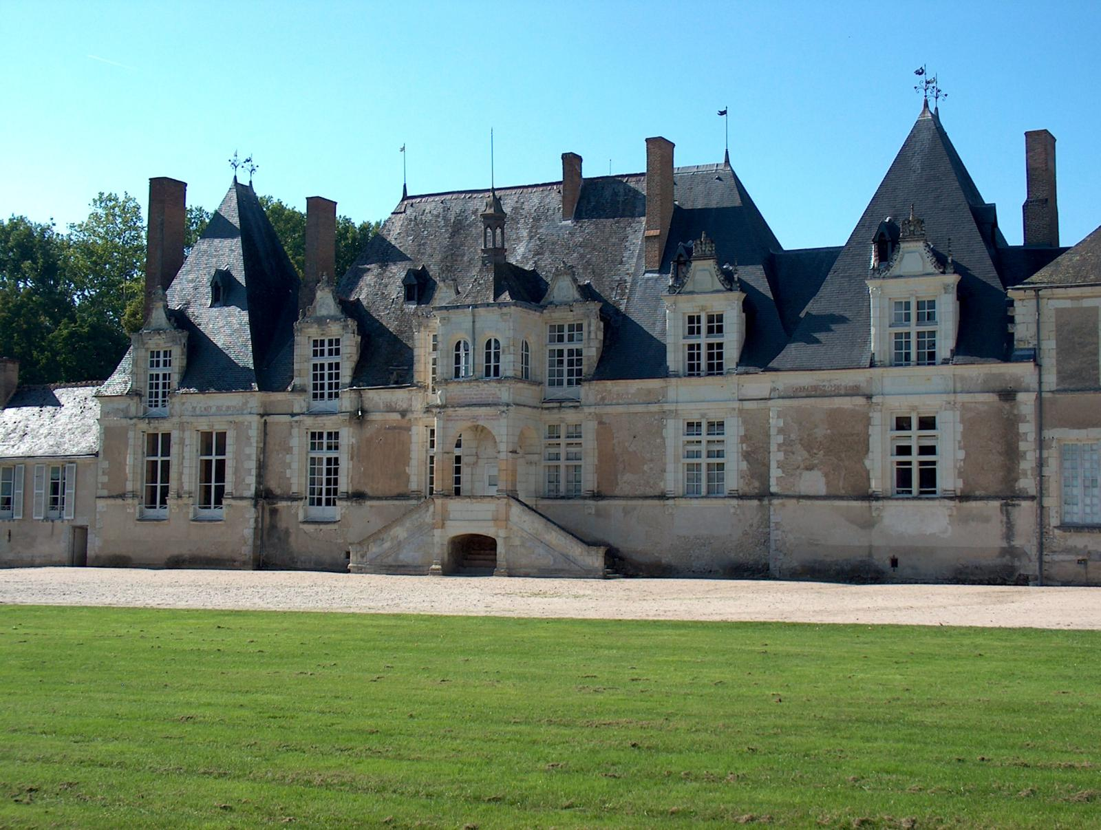 Château de Villesavin, eastern aspect